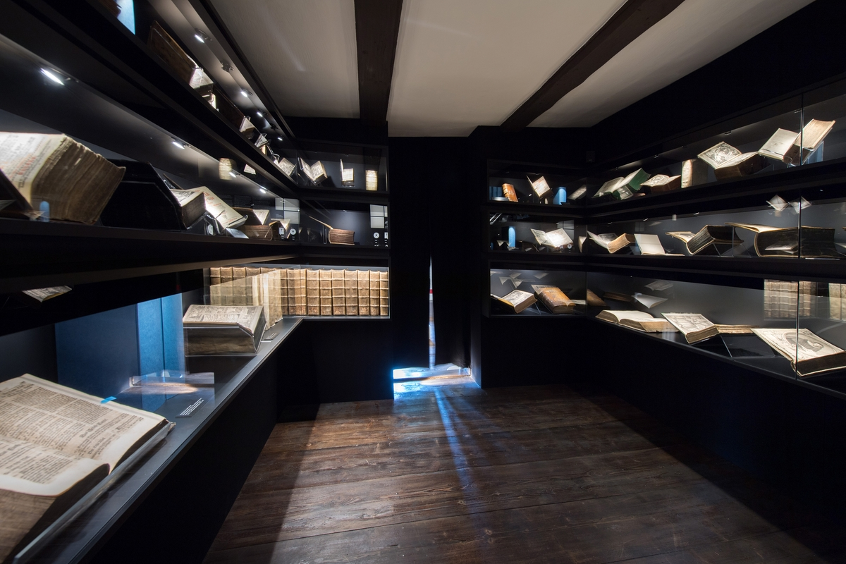 Reconstructed library of Johann Sebastian Bach at the Bachhaus Eisenach.